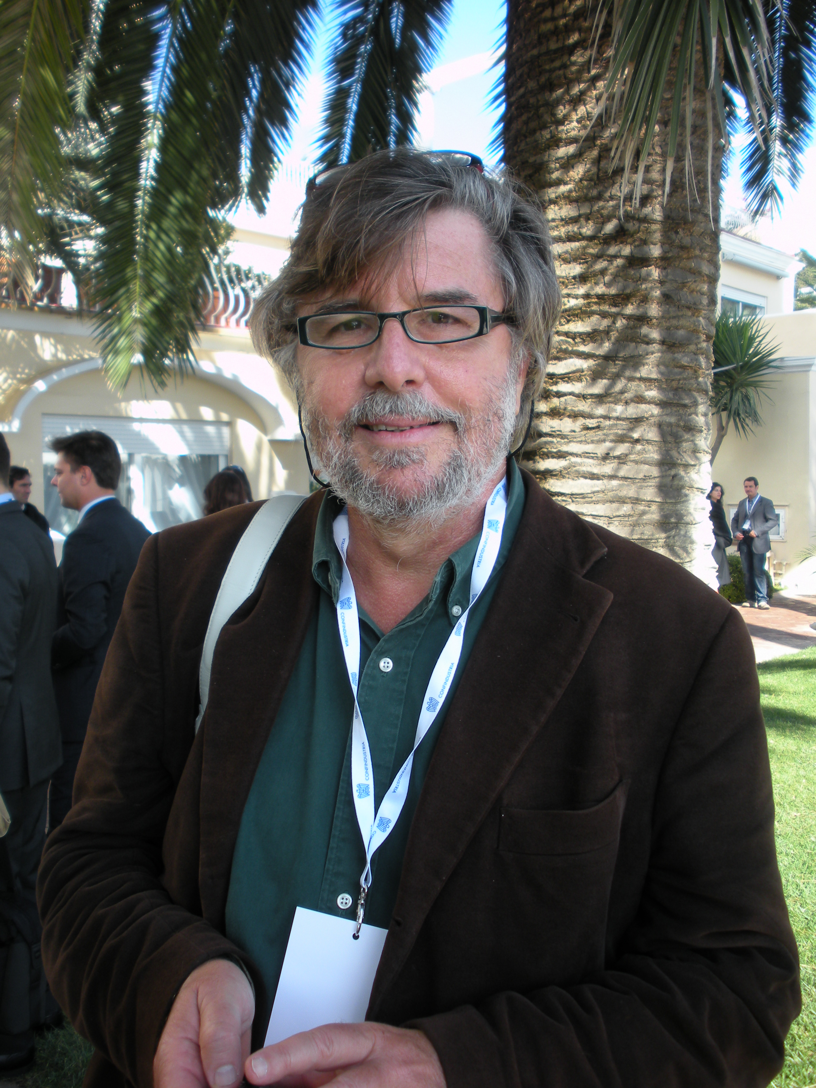 Piero Sansonetti, Italian journalist.